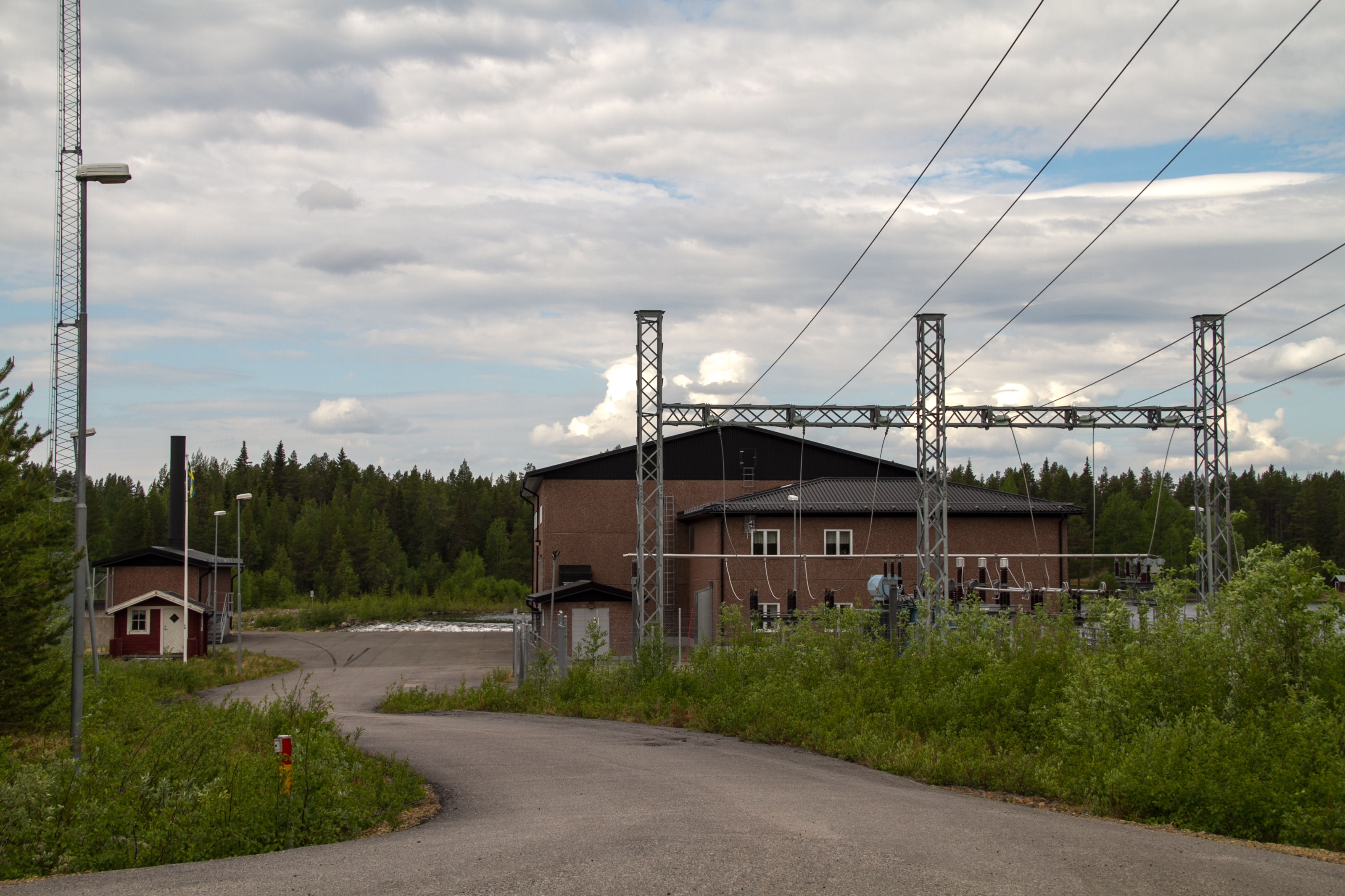 Slagnäs kraftstation (Slagnäs hydroelectric power station) in Slagnäs, Arjeplog municipality, Norrbotten county, Sweden